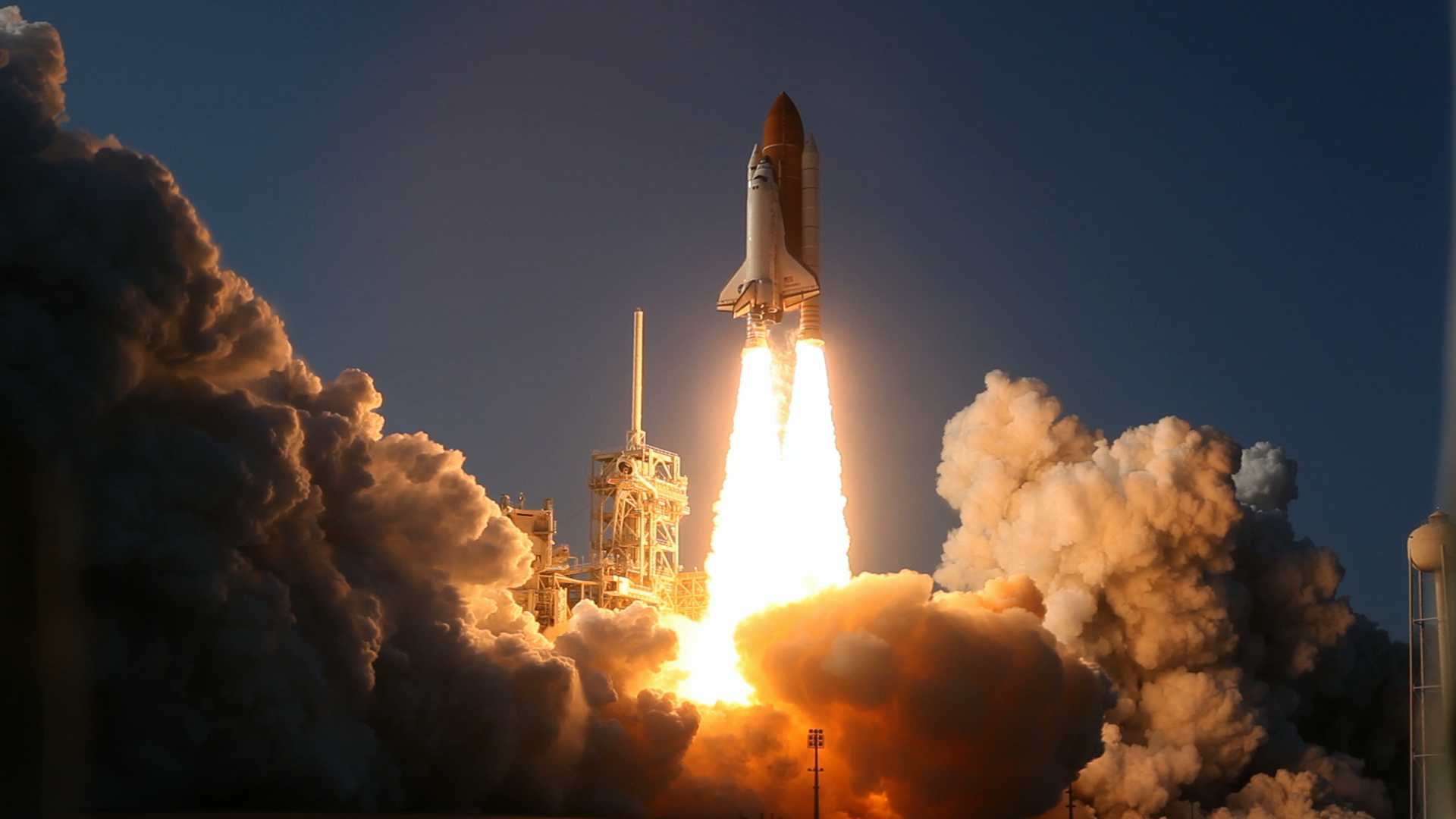 STS-133 lifts off from pad 39A at Kennedy Space Center